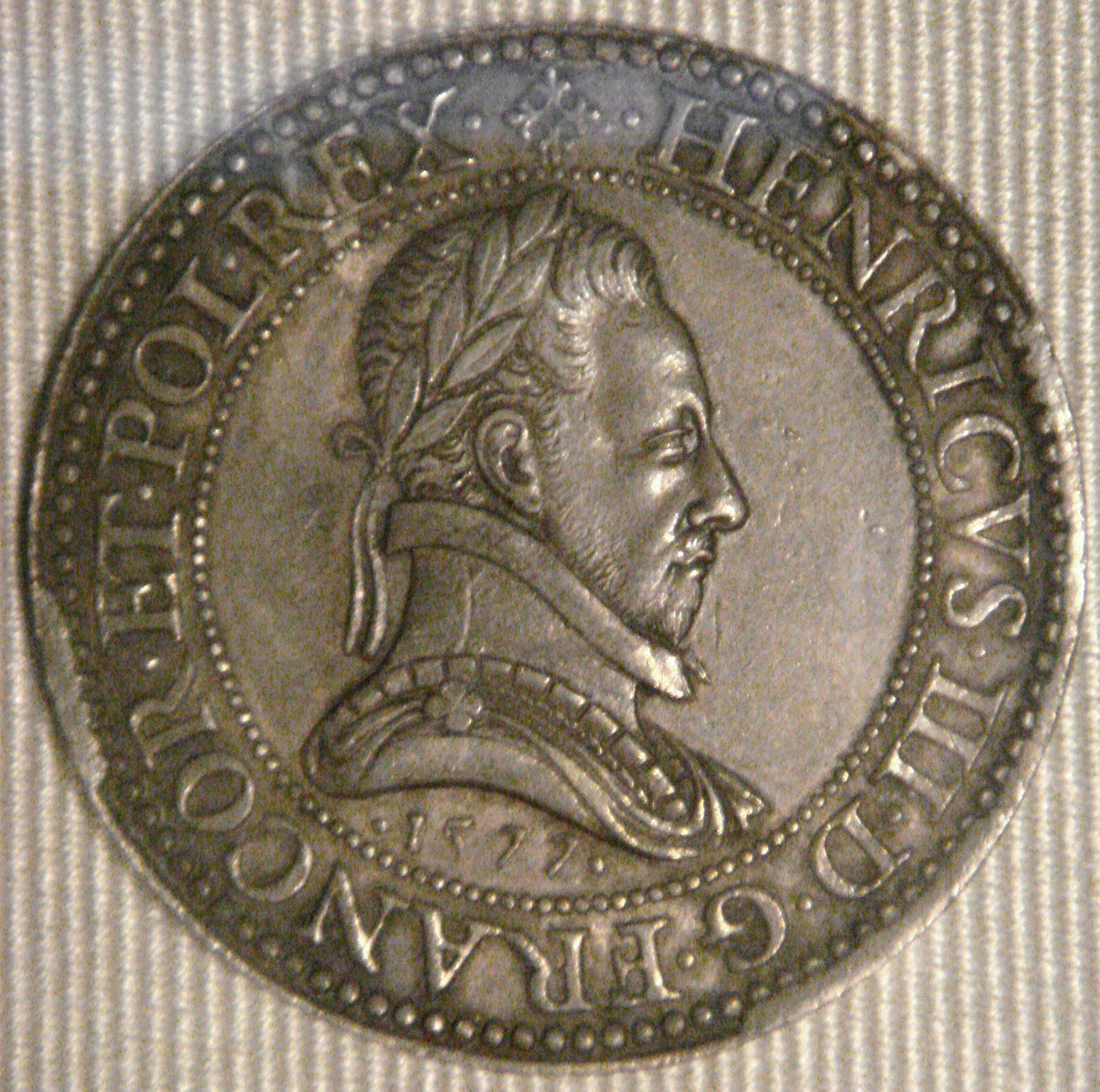 Henri_III of France, 1577